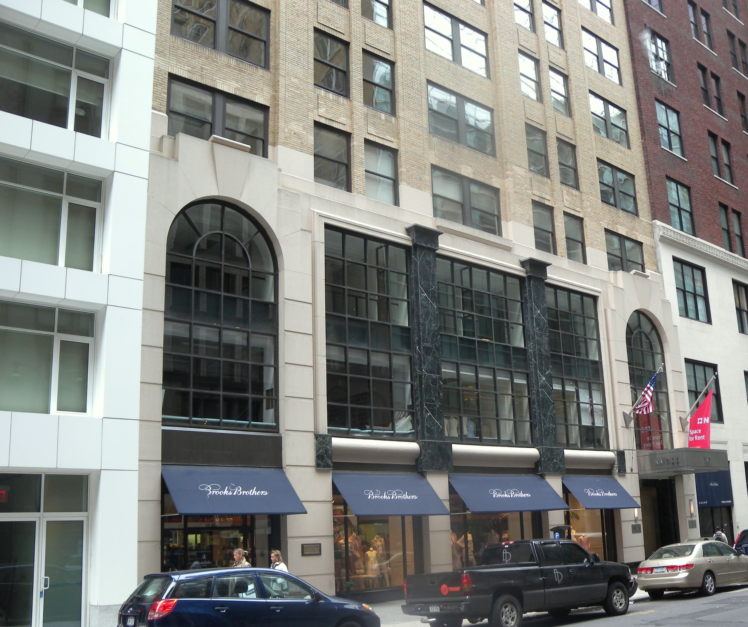 Looking east across 44th at Brooks Bros on a cloudy day.